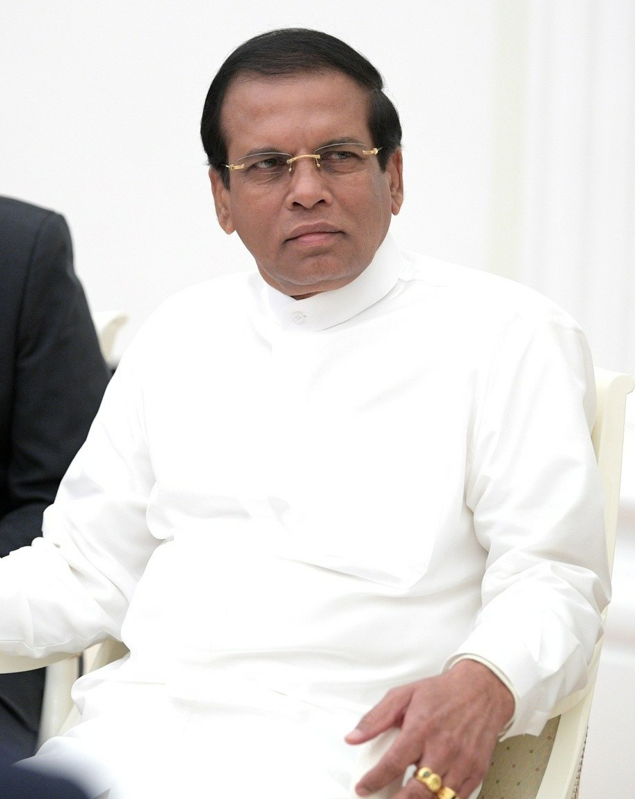 An image of Sri Lankan president Maithripala Sirisena at a meeting with Vladimir Putin in March 2017, cropped from the original image